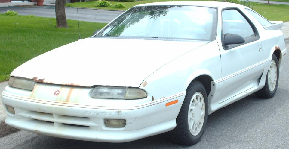 1991-1993 Chrysler Daytona photographed in Montreal, Quebec, Canada.